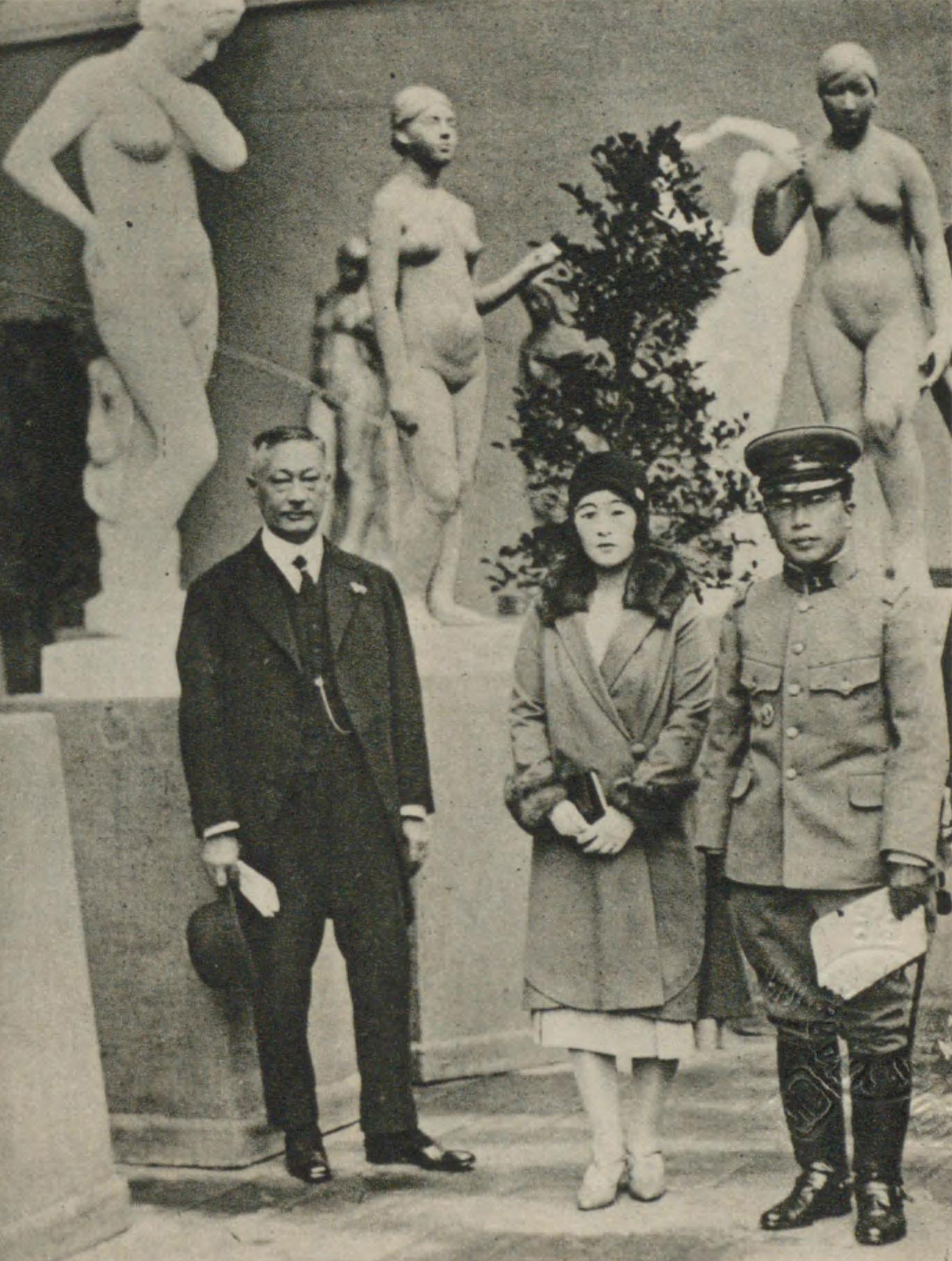 Yi Un & Yi Bangja at the National Art Exhibition